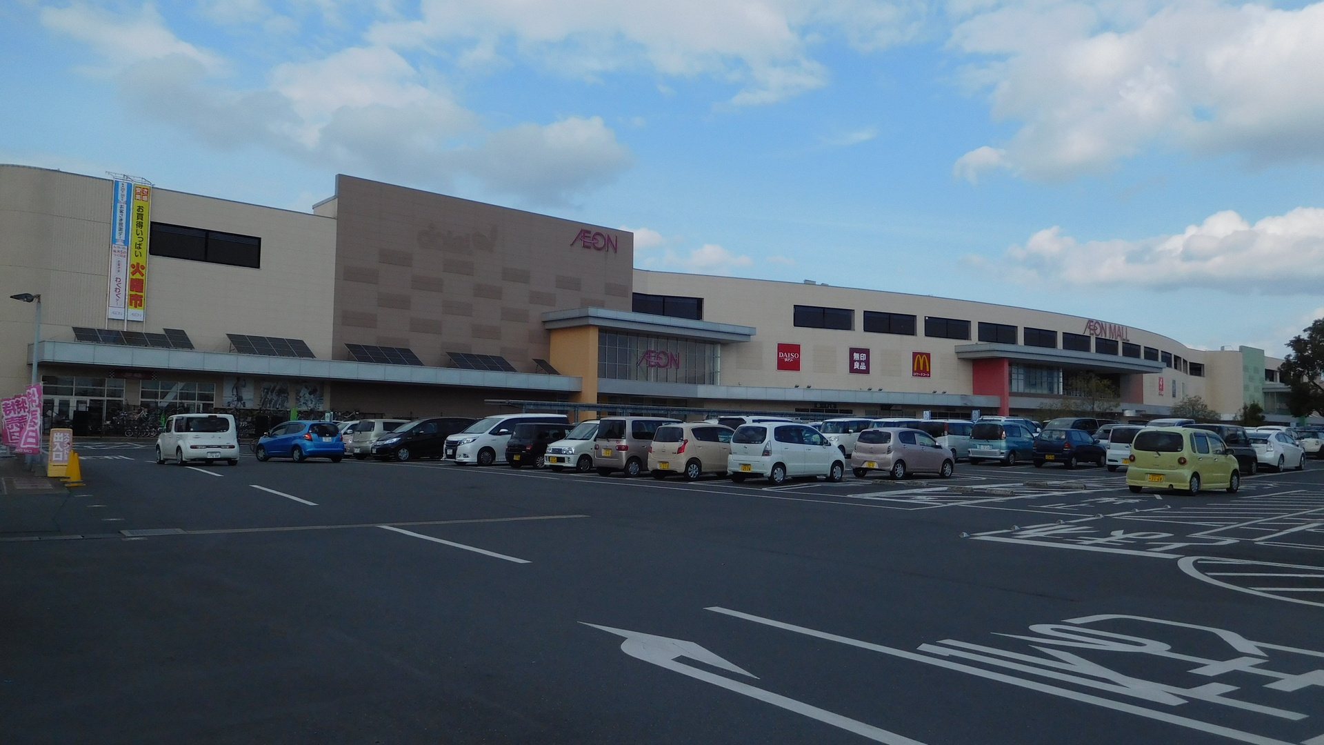 ÆONmall Miyakonojo-ekimae (Miyakonojo City, Miyazaki, Japan)